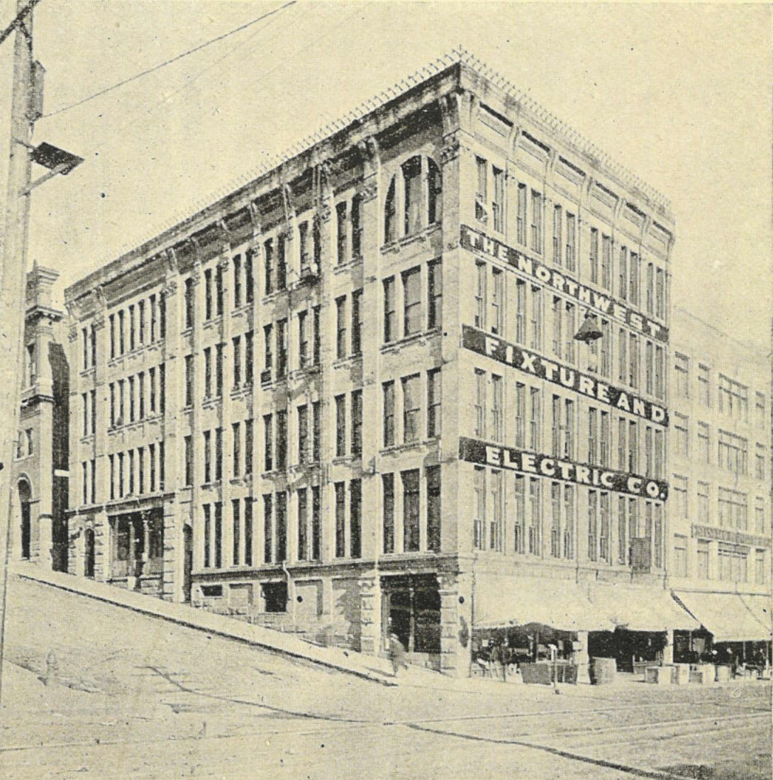 "Exterior of building occupied by the Northwest Fixture Co.", from brochure Seattle and the Orient (1900). According to accompanying text, this was "…probably the largest electrical supply concern on the [West] Coast", and occupied "the entire four stories of the building at 1018 First Avenue and three floors of the Starr building across the street". A large sign on the building says "The Northwest / Fixture and / Electric Co." The building is now known as the Holyoke Building, and is listed in the National Register of Historic Places, ID #76001888.